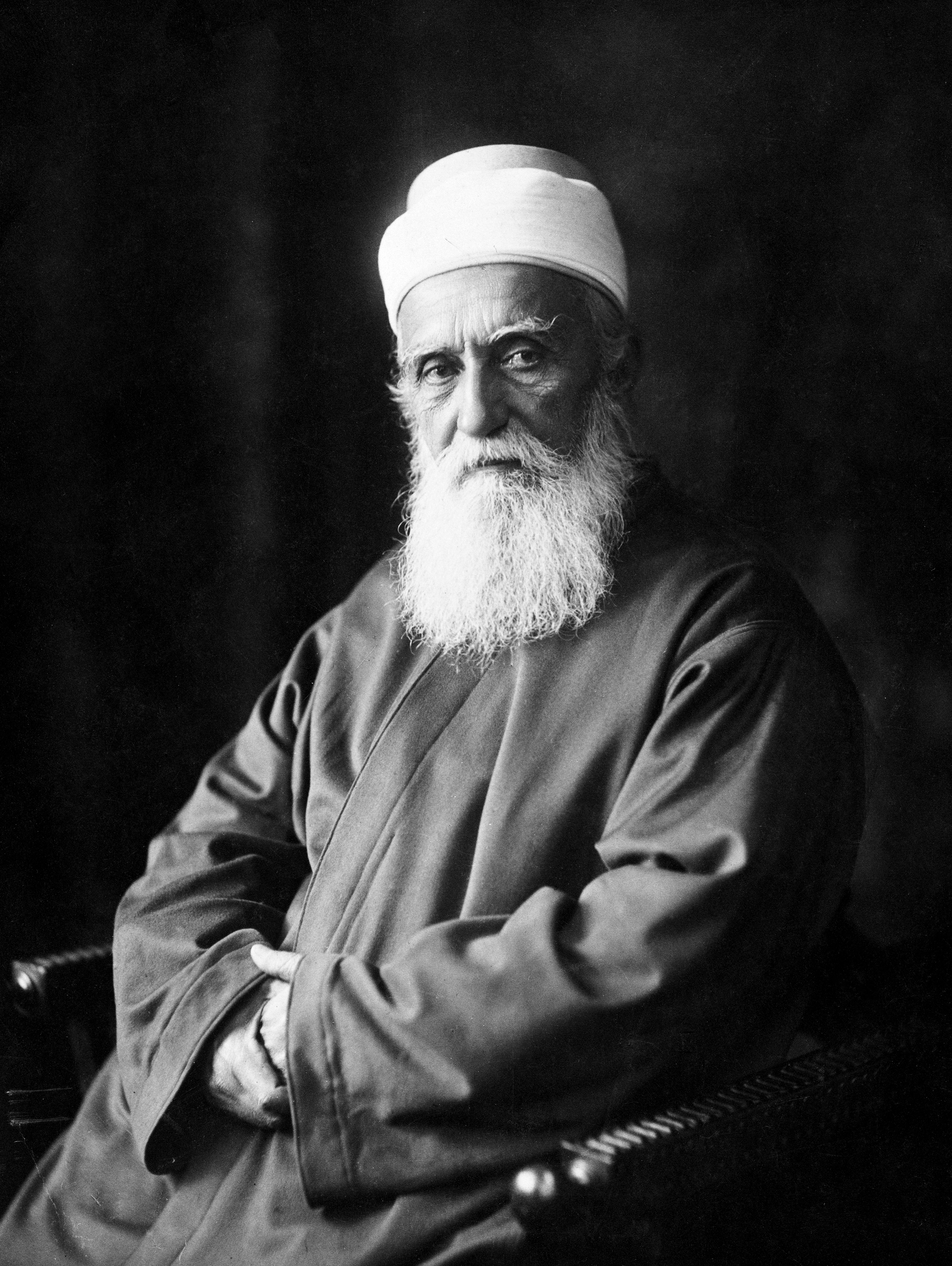 Abdul-Baha's photo